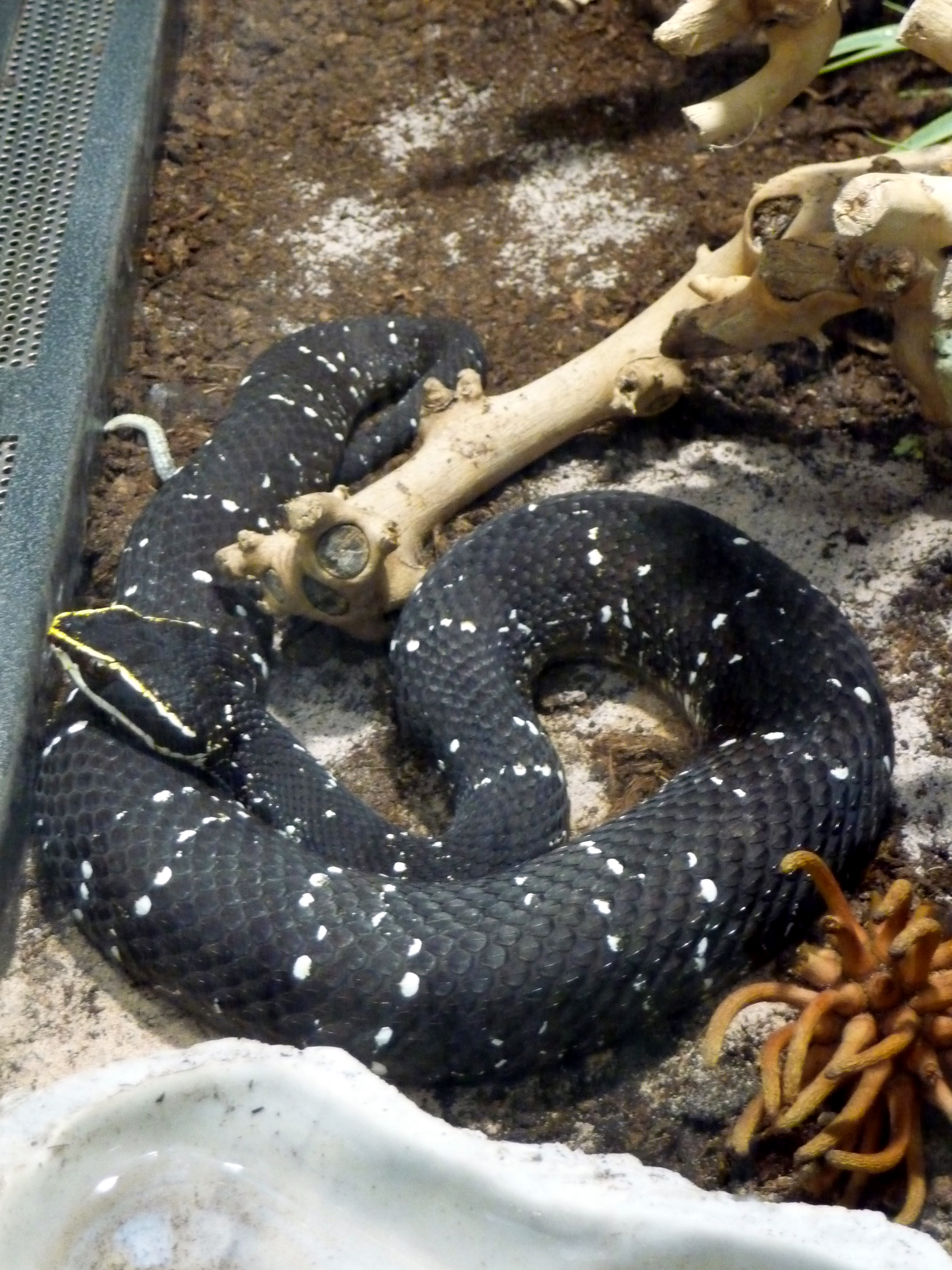 Cantil (Agkistrodon bilineatus), Terra Fauna exibition in shopping center Vaňkovka in Brno